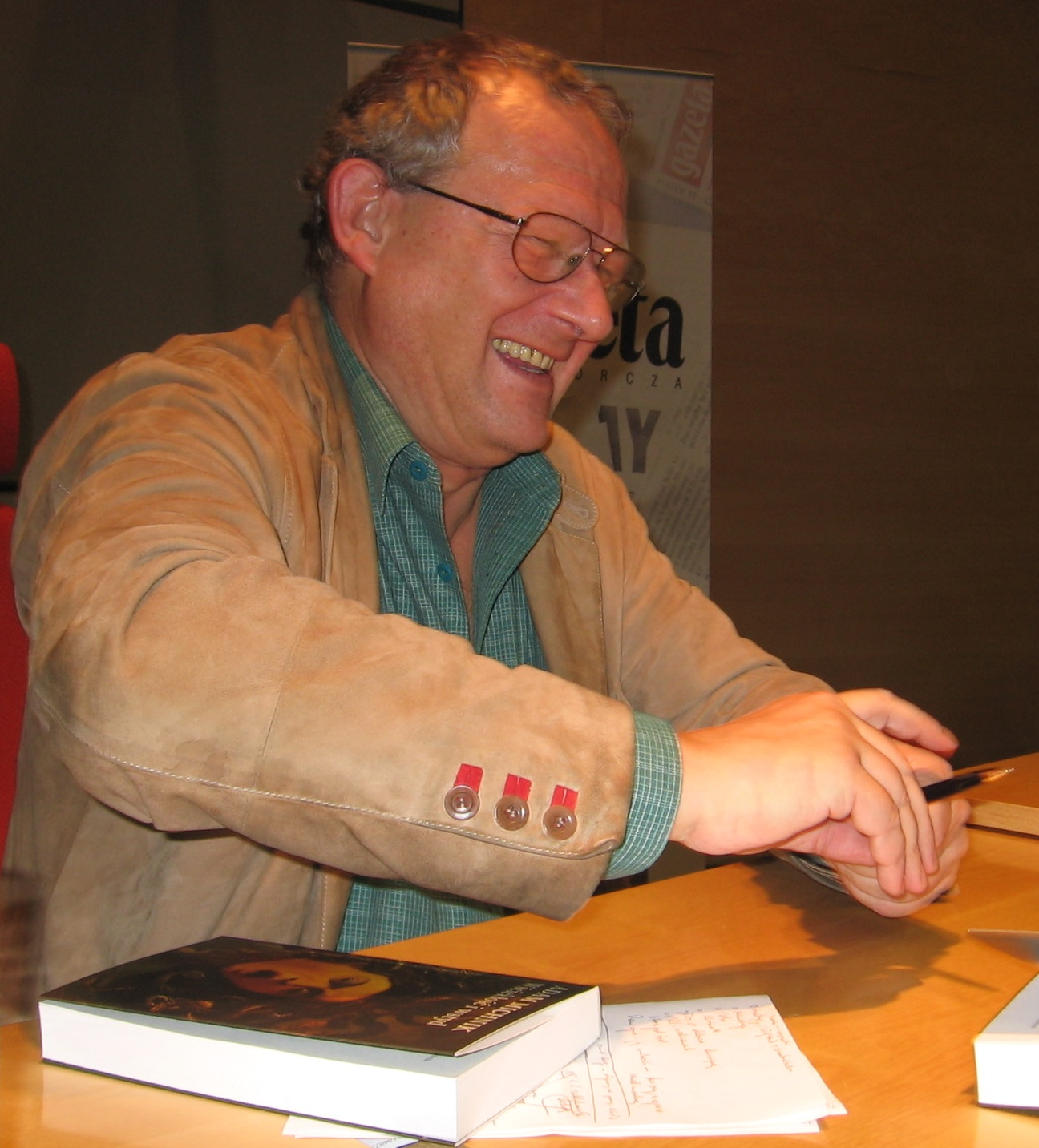 Adam Michnik during his author's meeting in Wrocław